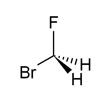 developed formula of bromofluoromethane